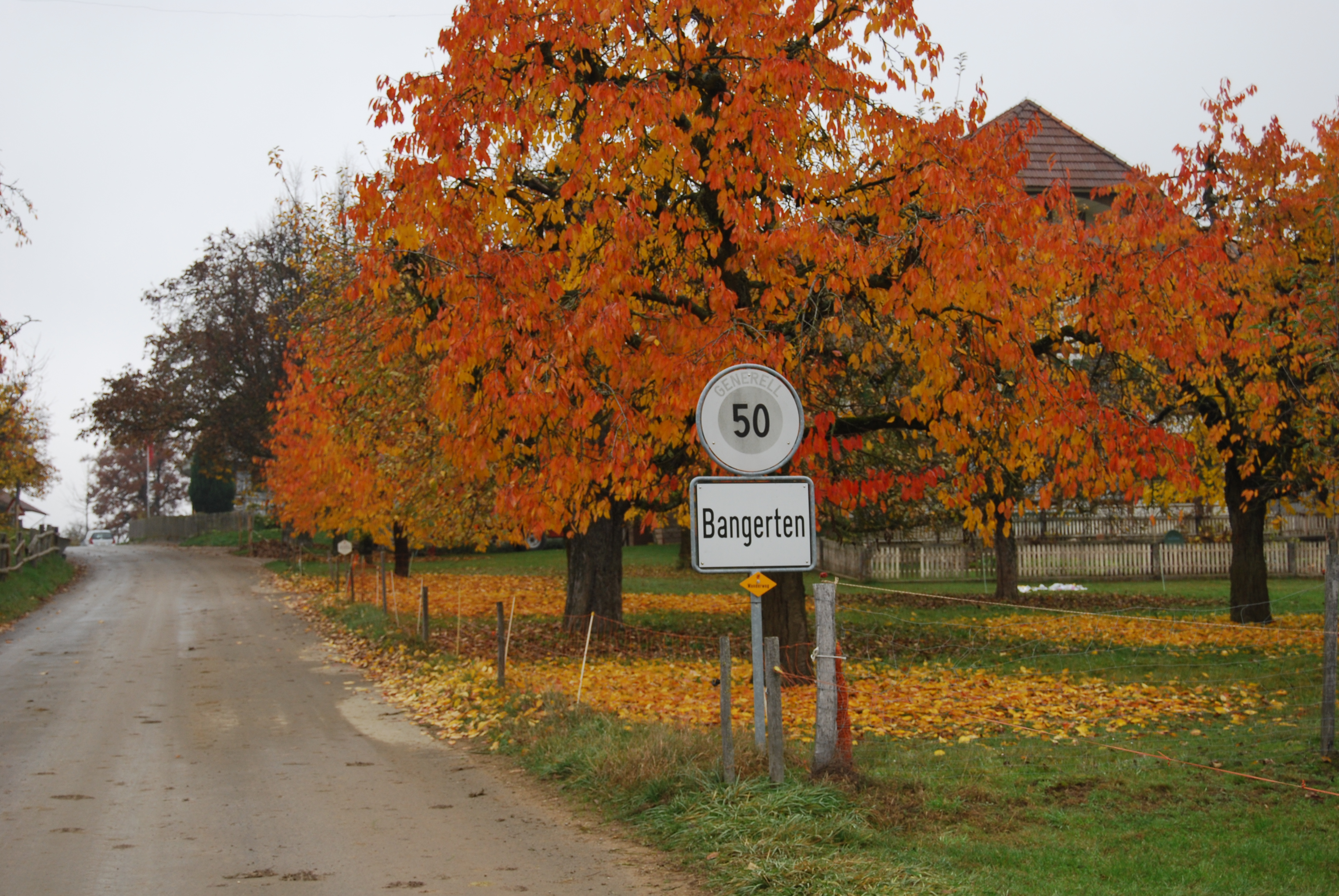 Bangerten, canton of Bern, SwitzerlandEsperanto: Bangerten, Kantono Berno, Svislando